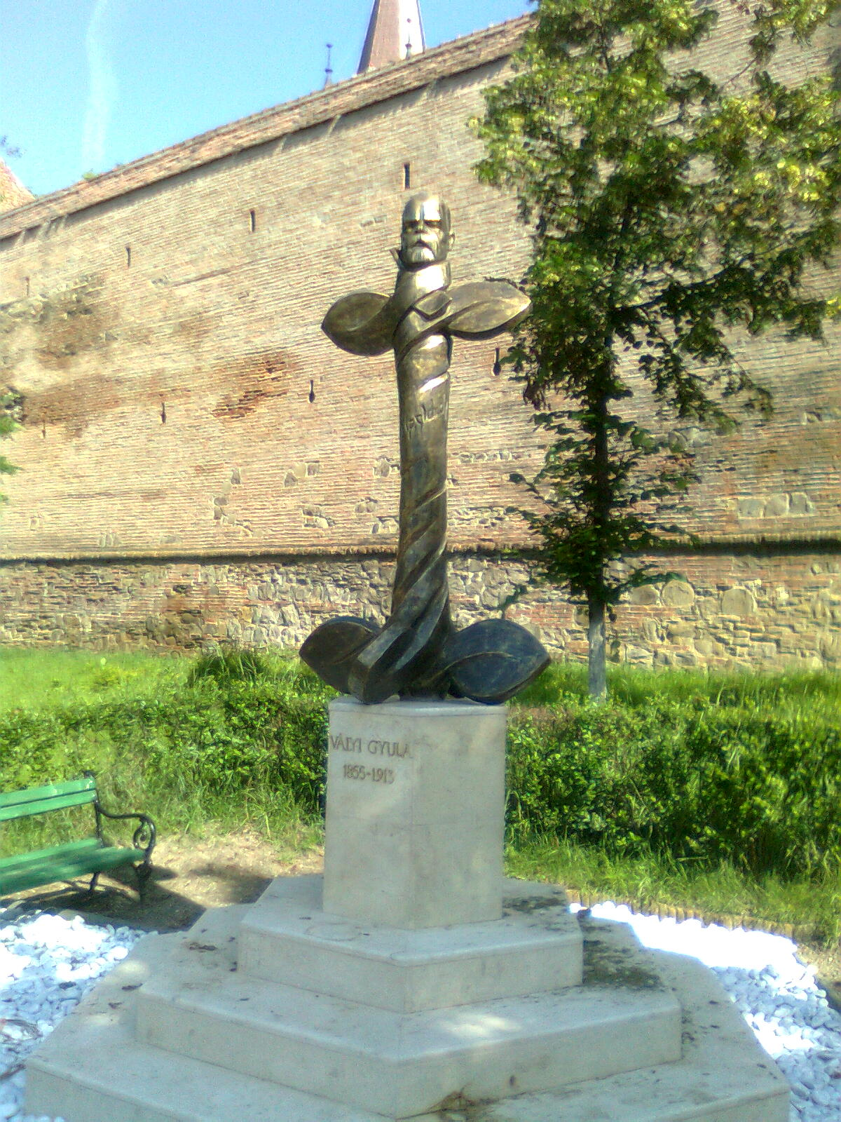 Sculpture of Gyula Vályi (1855-1913), mathematician, professor at Franz Joseph University in Kolozsvár. Place: Targu Mures (Romania)